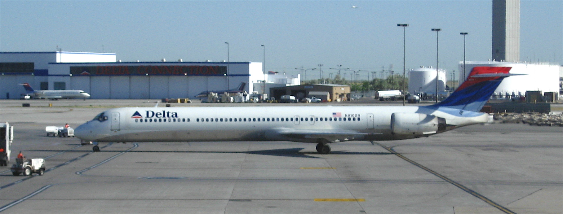 A Delta Air Lines MD-90 (N910DN) at Salt Lake City International Airport.